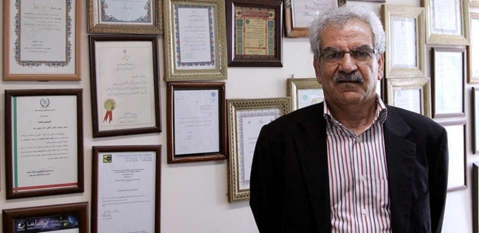 alavipanah2